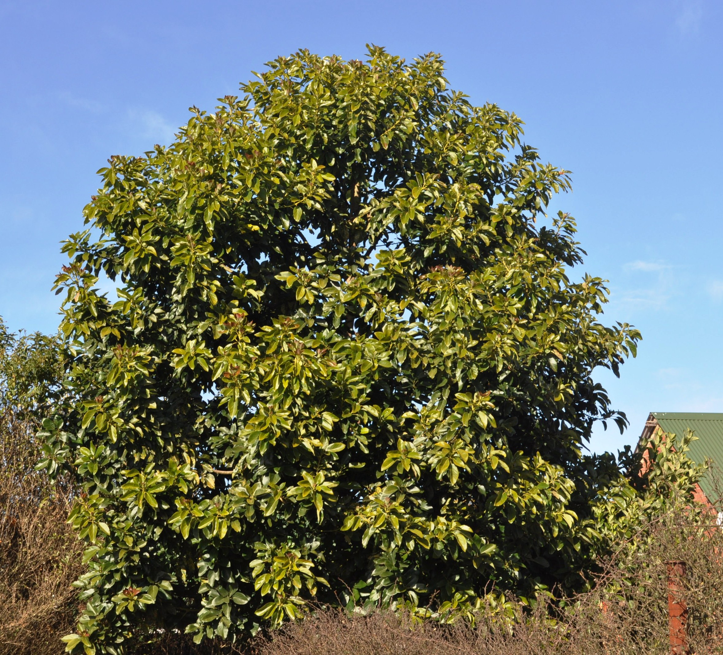 Cape fig in a garden in Kaapsehoop, Mpumalanga